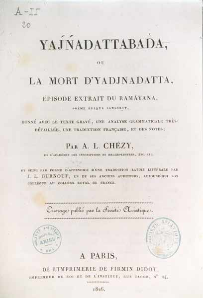 Title page of "Yajnadattabada", an episode from the Ramayana translated from Sanskrit into French by Antoine-Léonard Chézy.